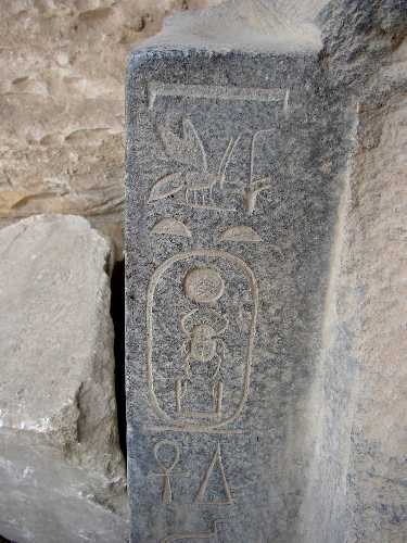 Premier exemple de relief en creux